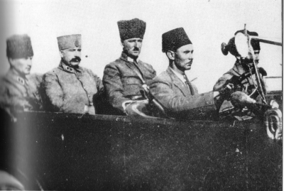 Turkish War of Independence the original image is easily available from many sources, it is dated 1922. The image is scanned from Ataturk 1967.